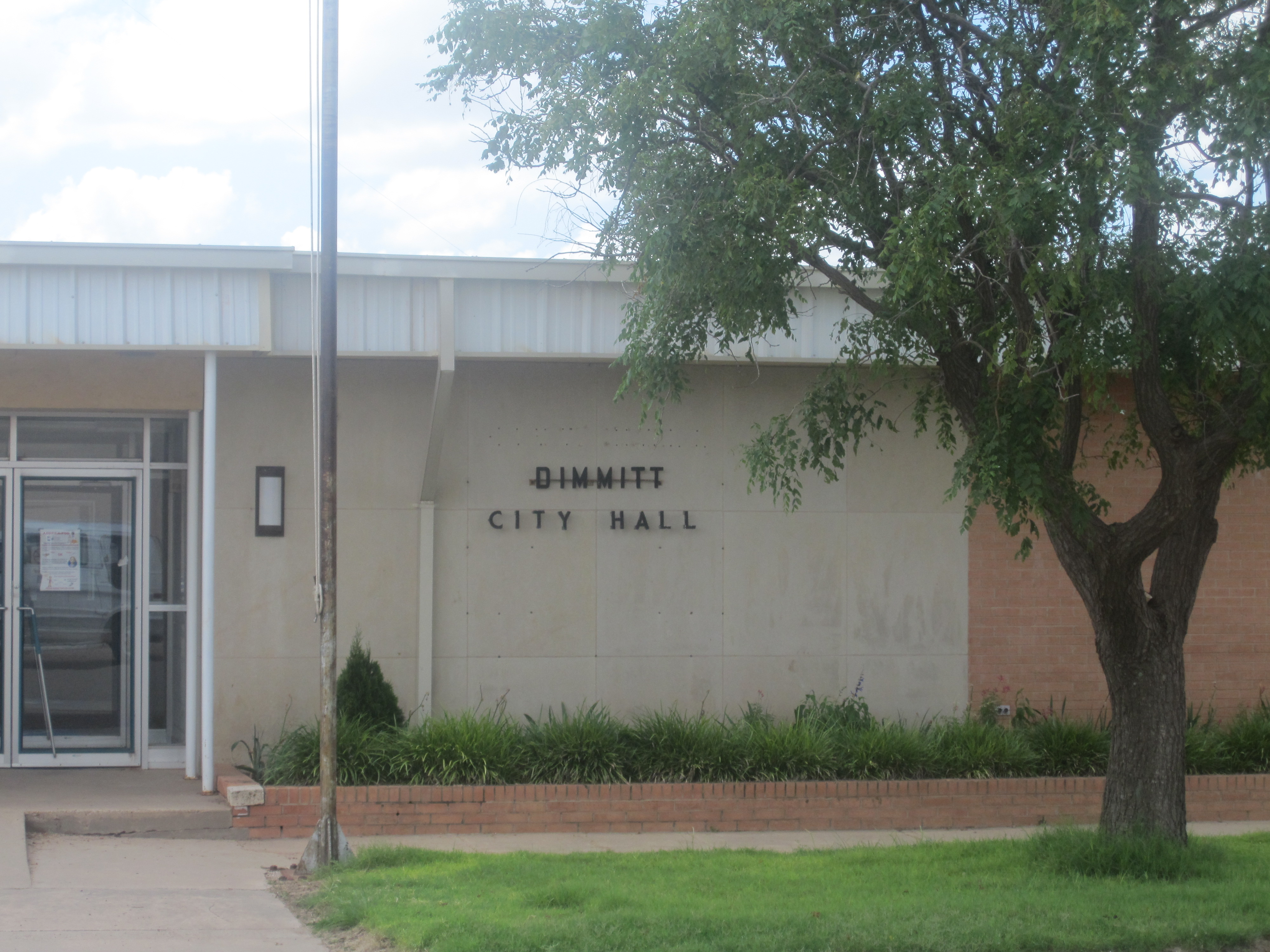 I took photo with Canon camera in Dimmitt, TX.